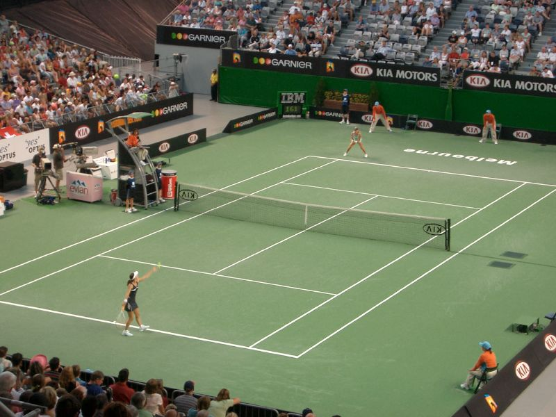 Martina Hingis (bottom-left, while serving) vs Emma Laine (top), at the 2006 Australian Open